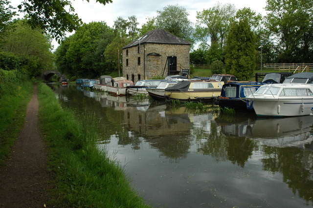 Govilon Wharf Govilon Wharf and the Monmouthshire and Brecon Canal. The building in the background is the maintenance operations office of the Wales and Border Counties Waterways.